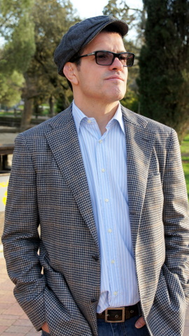 Evelin Banev Brendo, real estate observation tour, 2011,Евелин Банев Брендо 2011